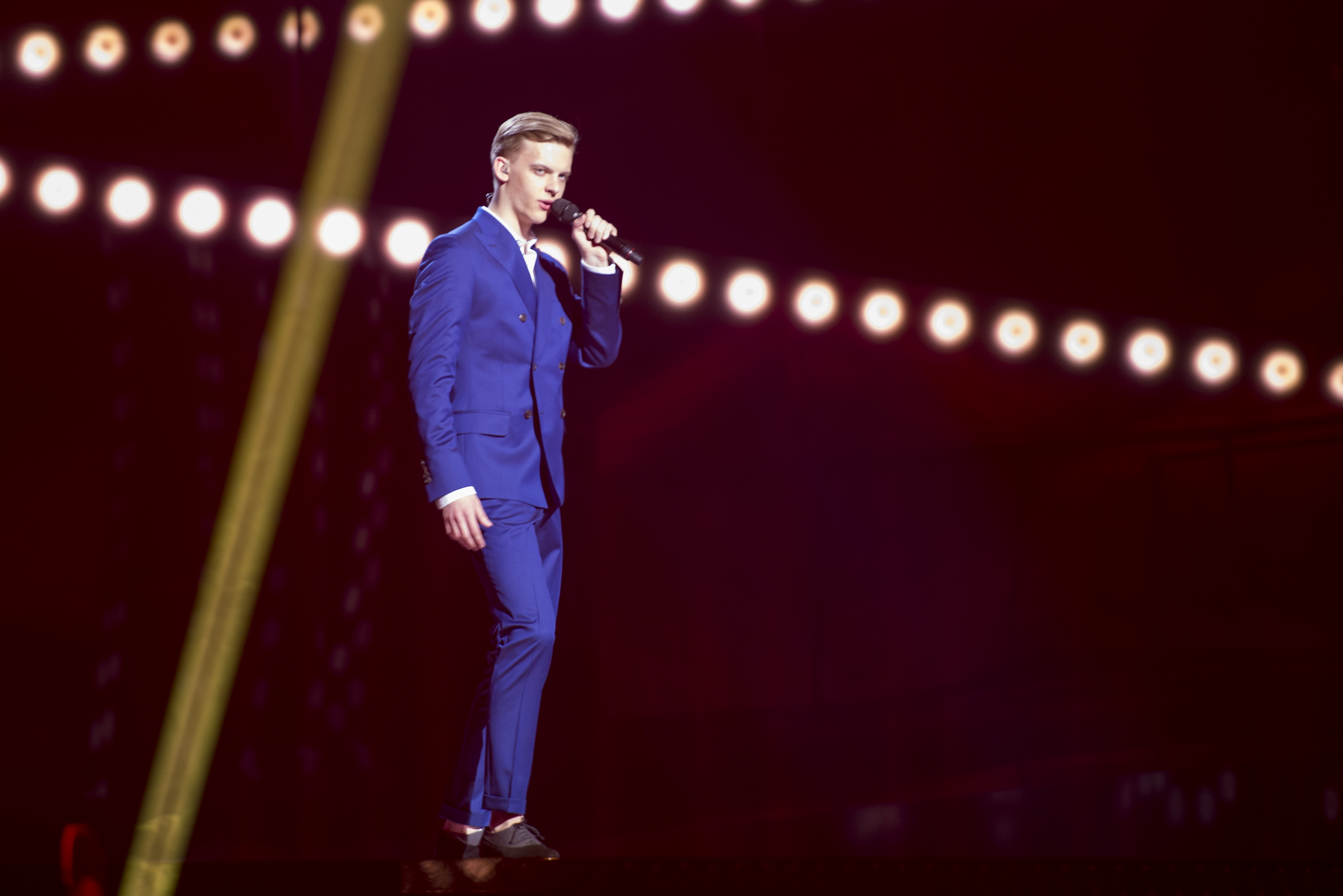 Jüri Pootsmann representing Estonia with the song "Play" during a rehearsal before the first semi final of the Eurovision Song Contest 2016 in Stockholm. (Help translate this text)